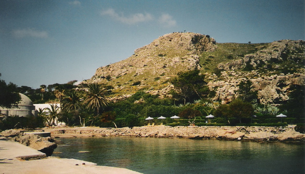 own work, the bay of Kalithea (Rhodos, Greece), taken in May 2002 by ERWEH